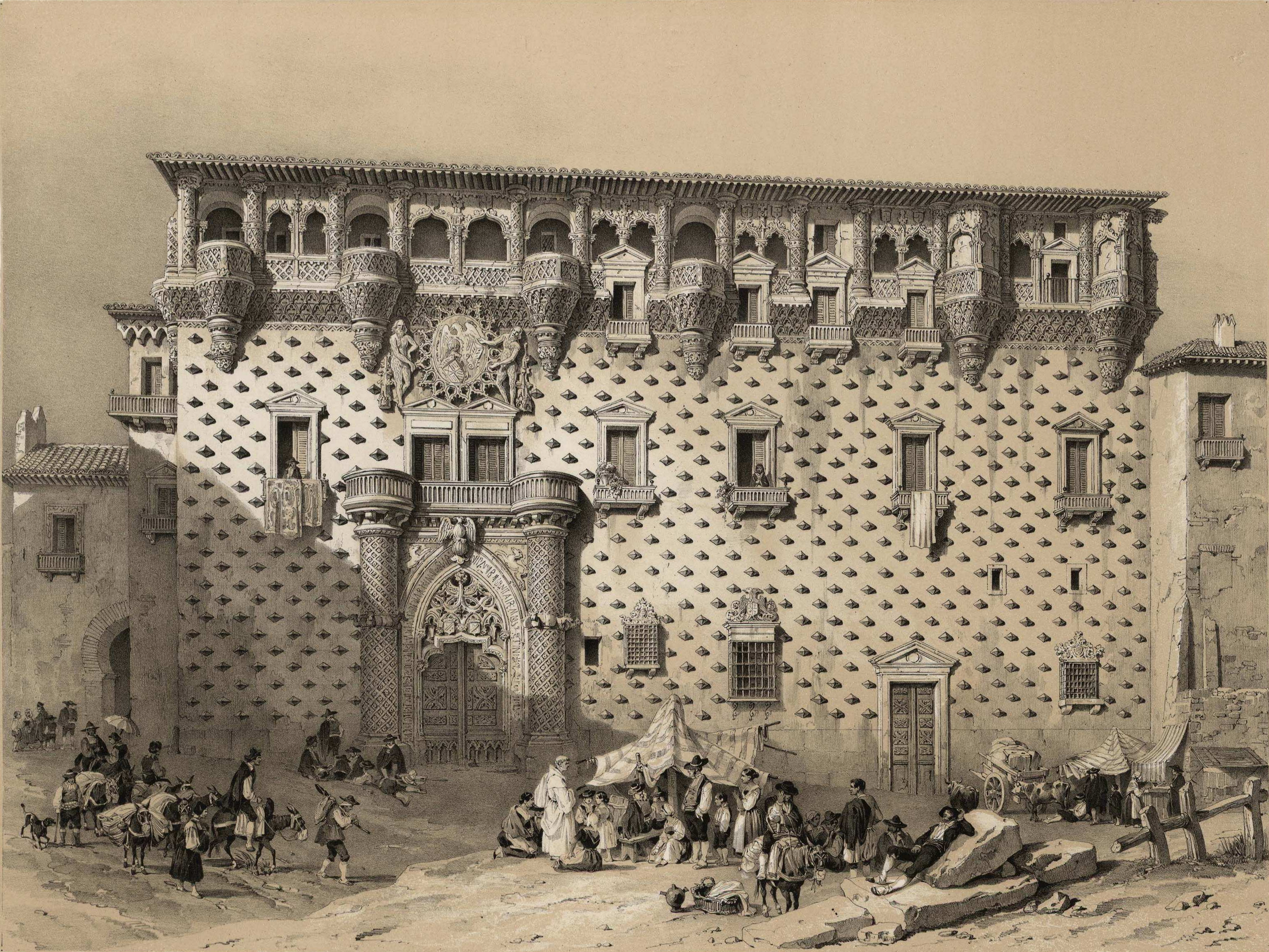 Façade of the Infantado Palace. Guadalajara, Spain.